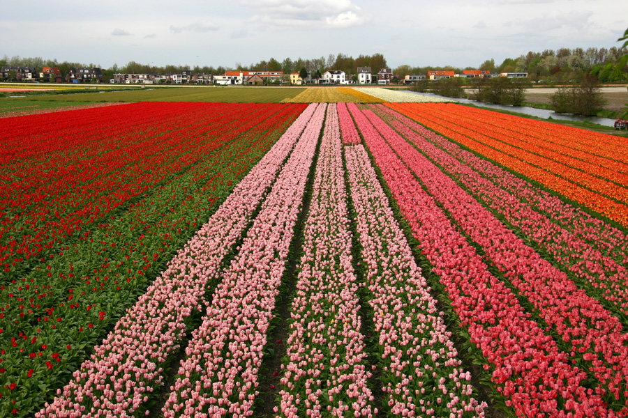 Cultivations of Tulips in South Holland